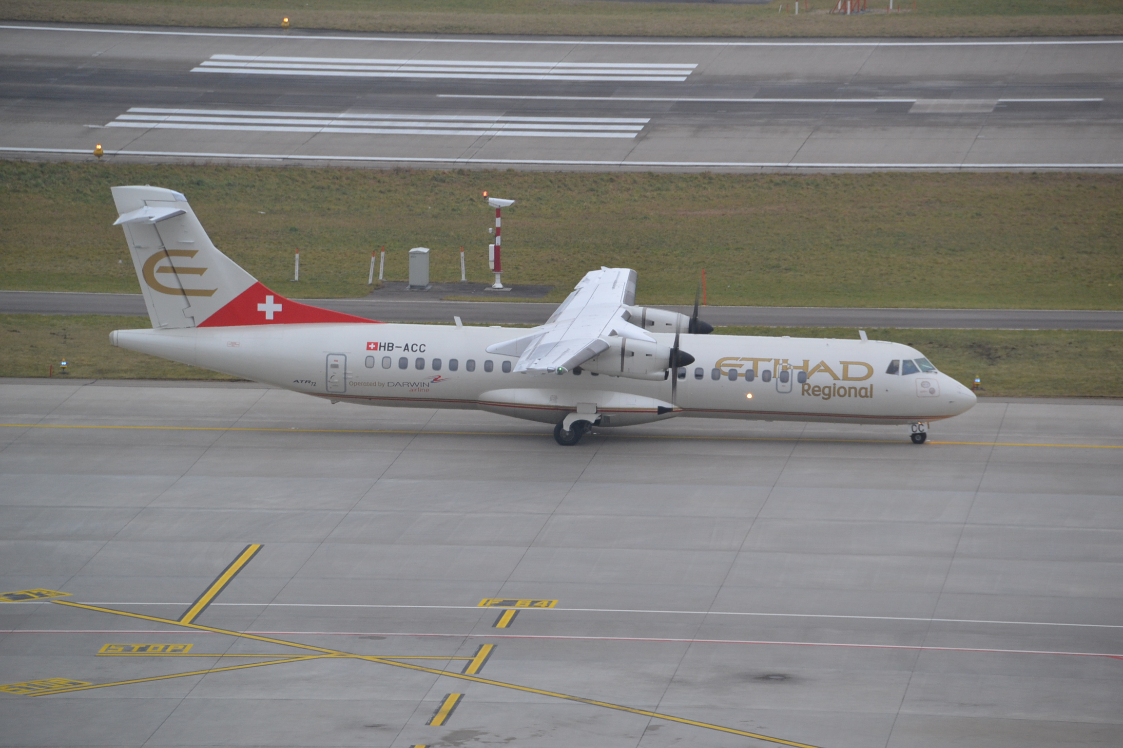 Aerospatiale ATR72 of Darwin Airline with additional Etihad Regional clrs.,titles at Zurich-ZRH, Switzerland.